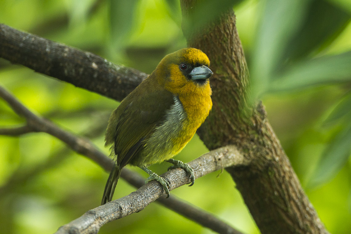 Prong-billed Barbet - Cinchona - Costa Rica_S4E0218